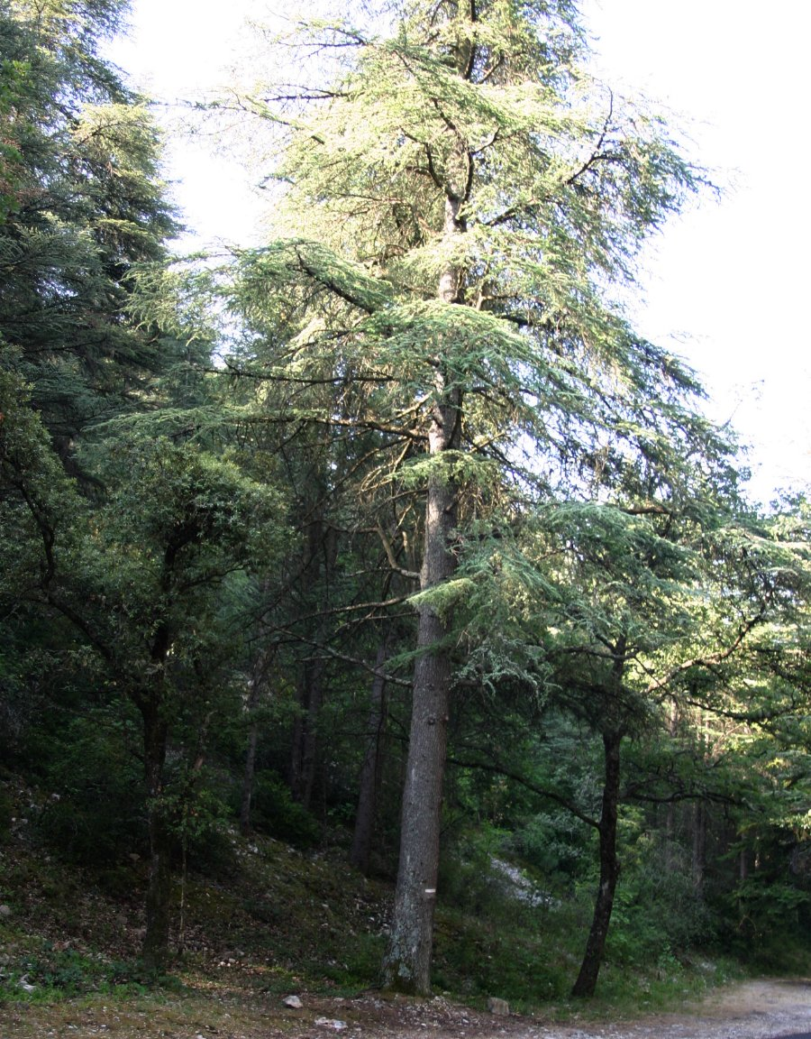 Atlas Cedar (Cedrus libani var. atlantica) on Mont Ventoux (Vaucluse, France).